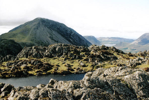 I am the author of this photograph and hereby release it to the public domain